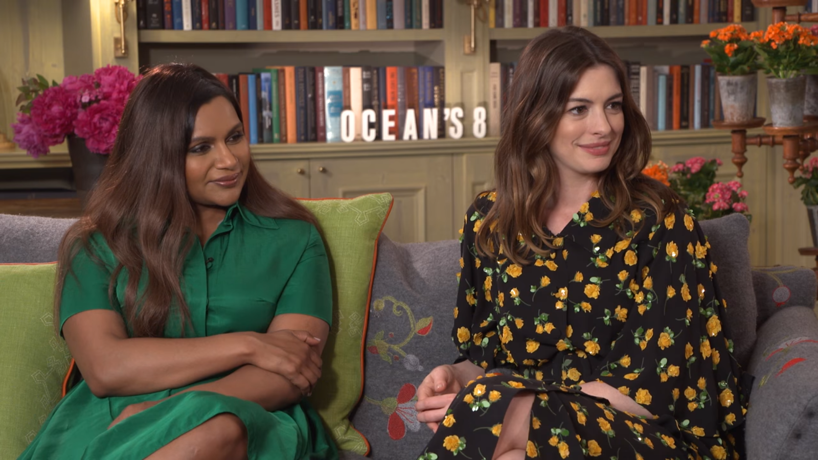 I don't show just anyone my signature dance moves, but when I do it's with Anne Hathaway and Mindy Kaling. Check out my new video to see my full interview with some of the cast of Ocean's 8! A huge thanks to Warner Brothers for the Opportunity :)